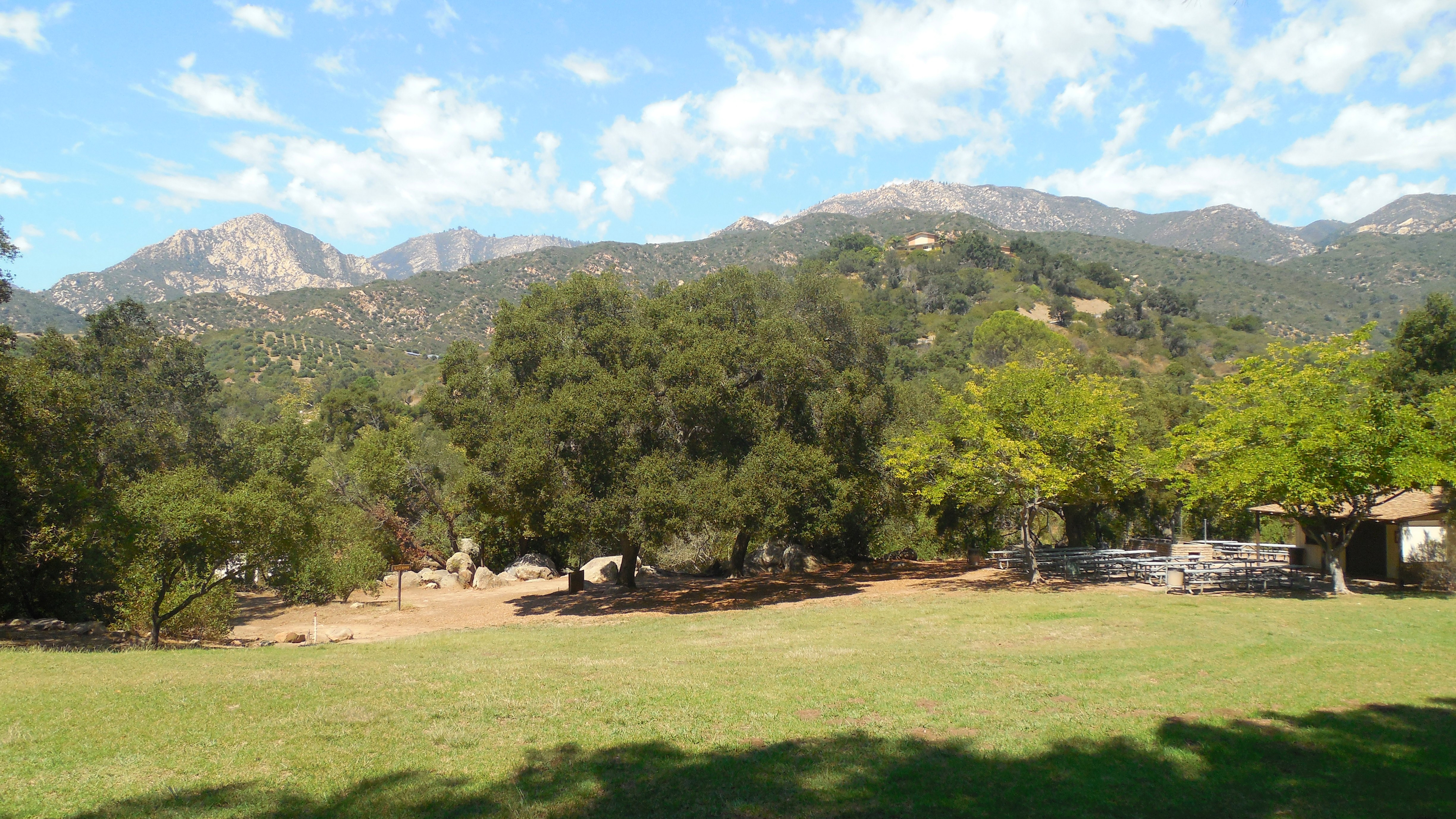 Eastward view of the Santa Ynez mountains (Arlington Peak far left) from Skofield Park in Santa Barbara, California, September 2017